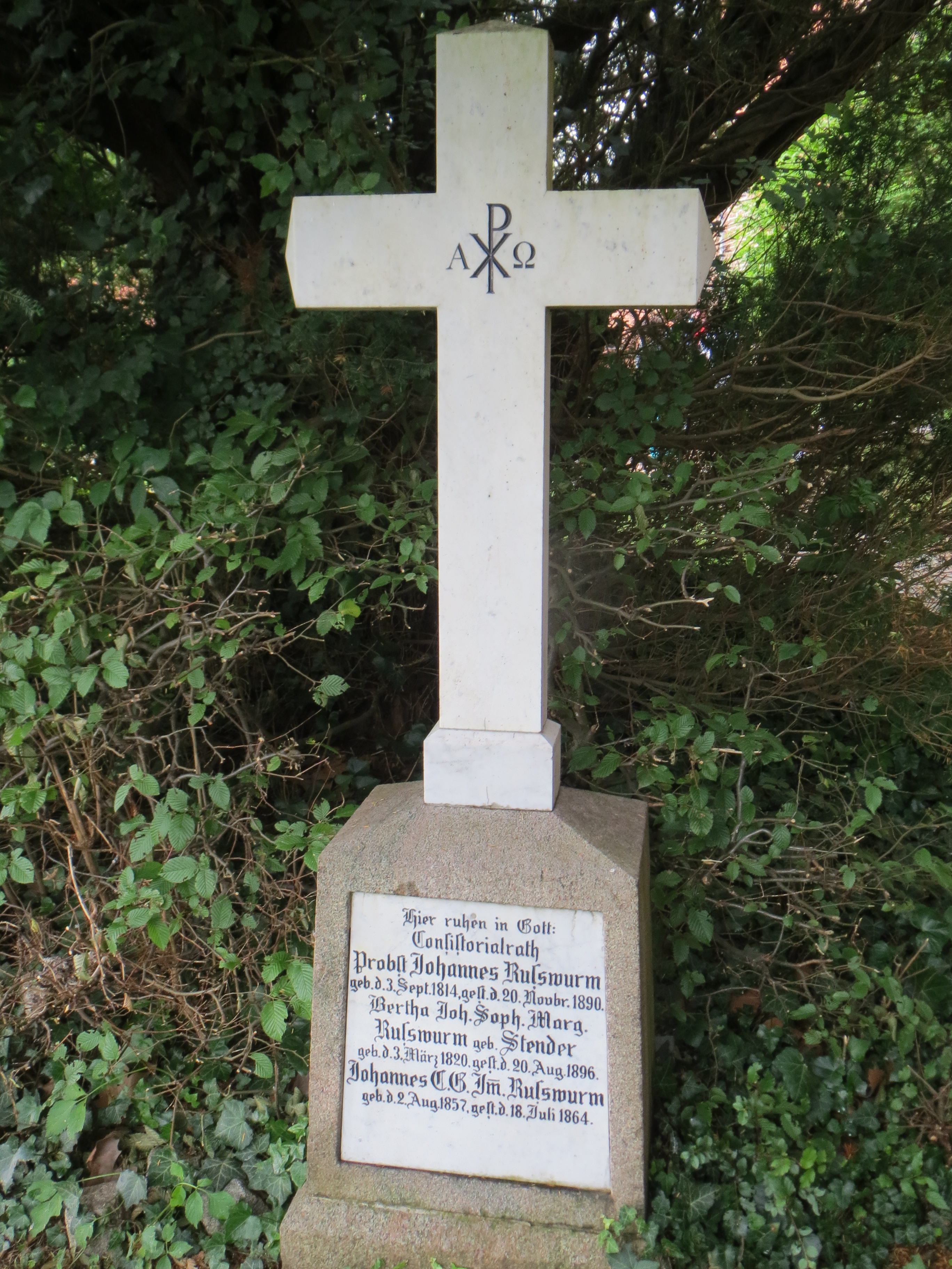 Ratzeburg Cathedral Cemetery